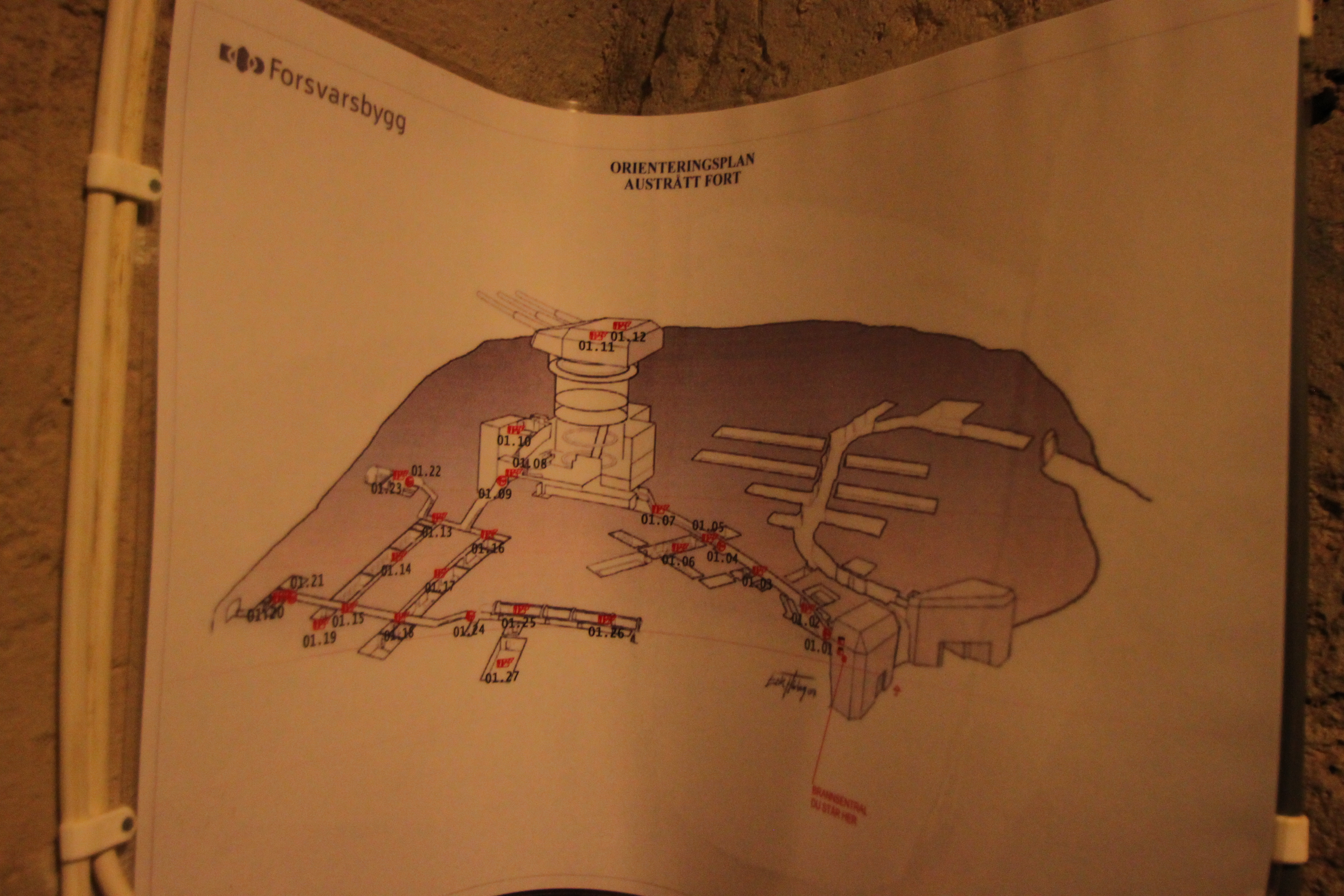 Austrått Fort 28 cm SK C/34 gun at Austrått Fort in Ørland, Norway